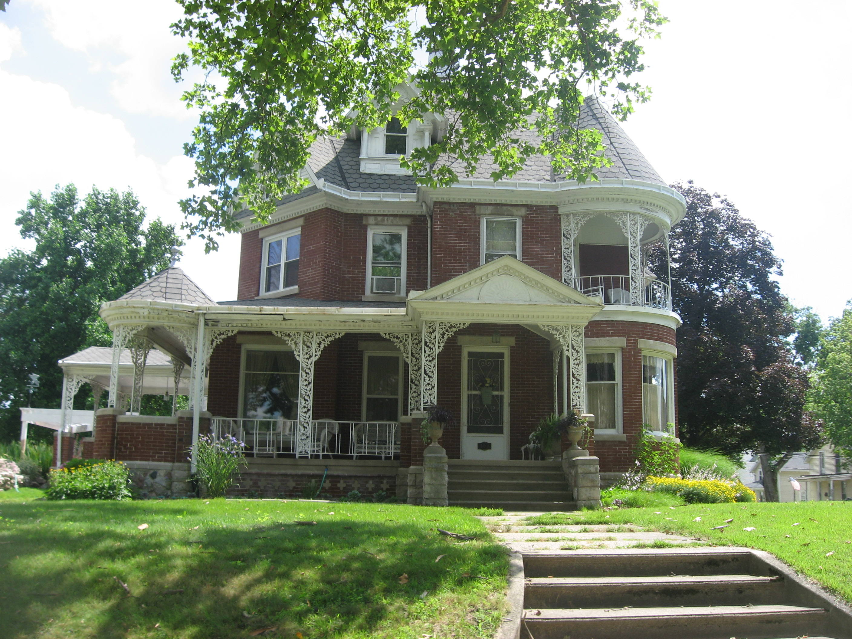 Front of the Dietrich-Bowen House, located at 304 N. Center Street in Bremen, Indiana, United States. Built in 1900, it was home to former Governor Otis R. Bowen and his family, and it is listed on the National Register of Historic Places.